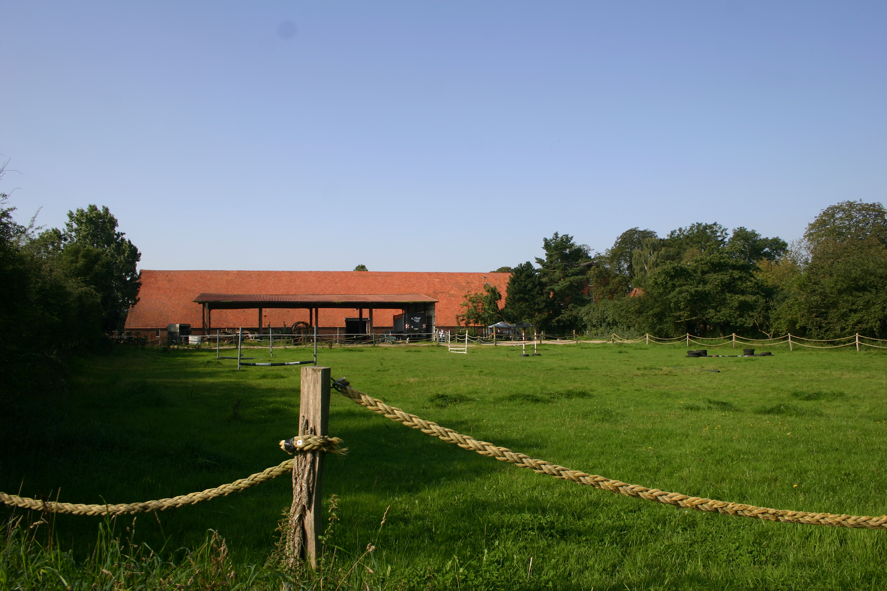 Farmhouse "Horster Grashaus" in ther community of Friedeburg, district of Wittmund, East Frisia, Germany